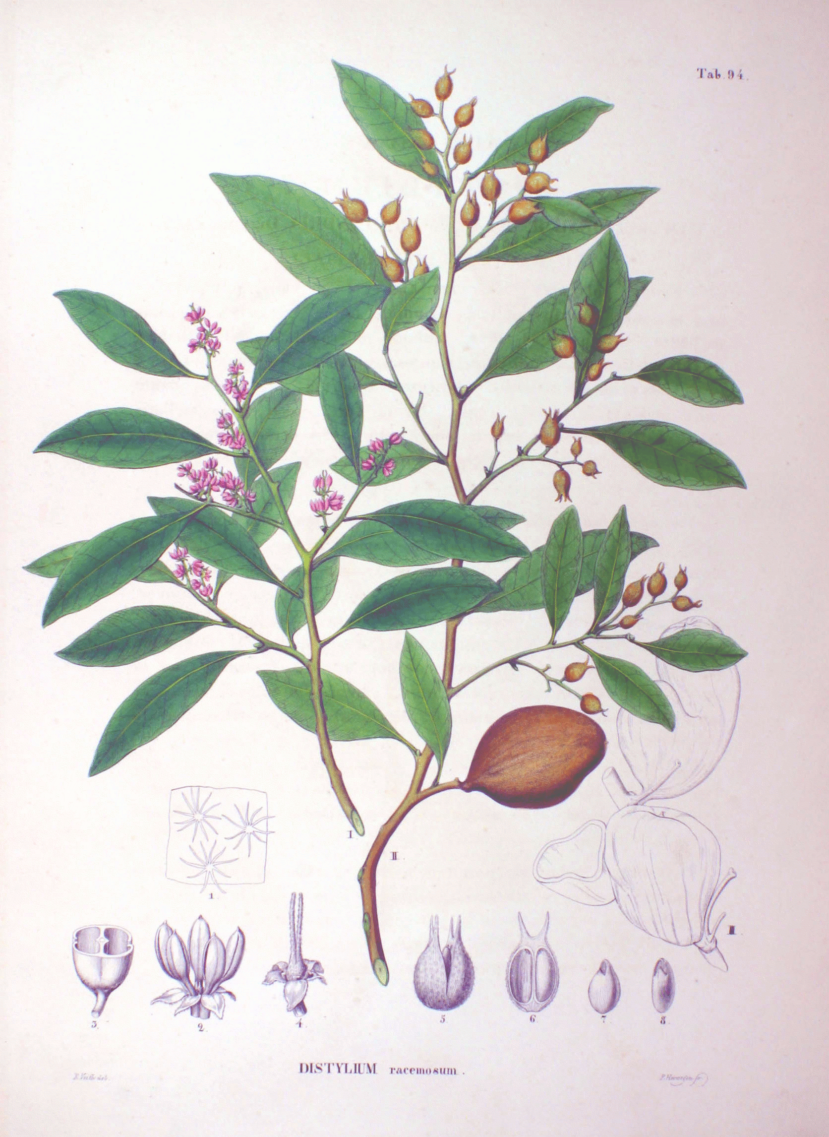 Plate from book